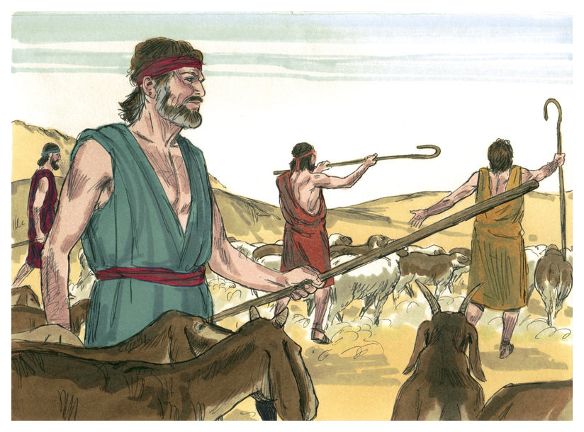 Biblical illustration of Book of Genesis Chapter 32